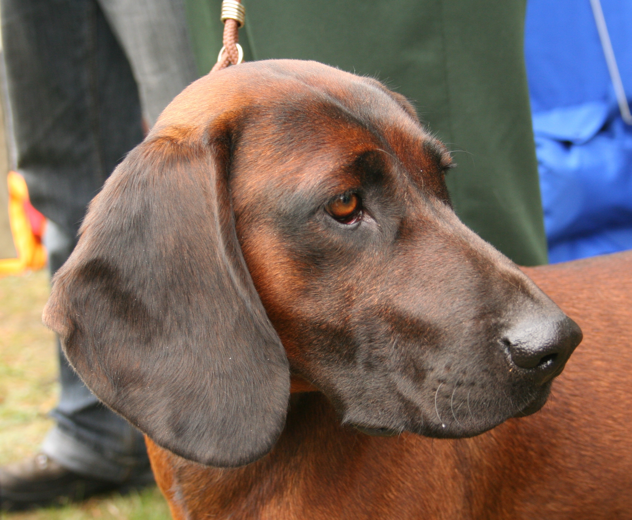 Bavarian Mountain Hound during show of dogs in Rybnik - Kamień, Poland